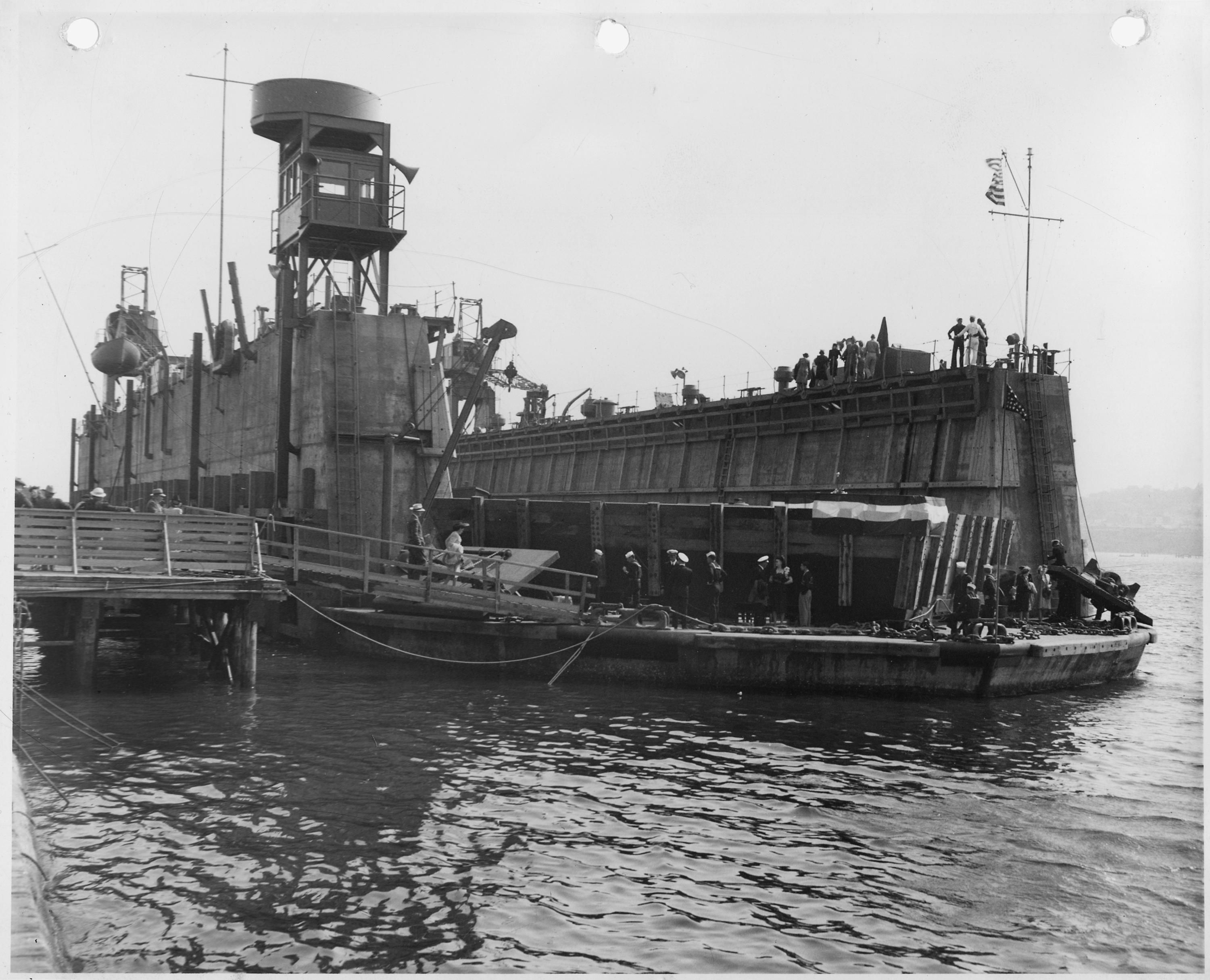 USS ARDC-13 WW2, US National Archives Photo, NARA ID: 295534, a US Navy photo in the collections of the US National Archives.